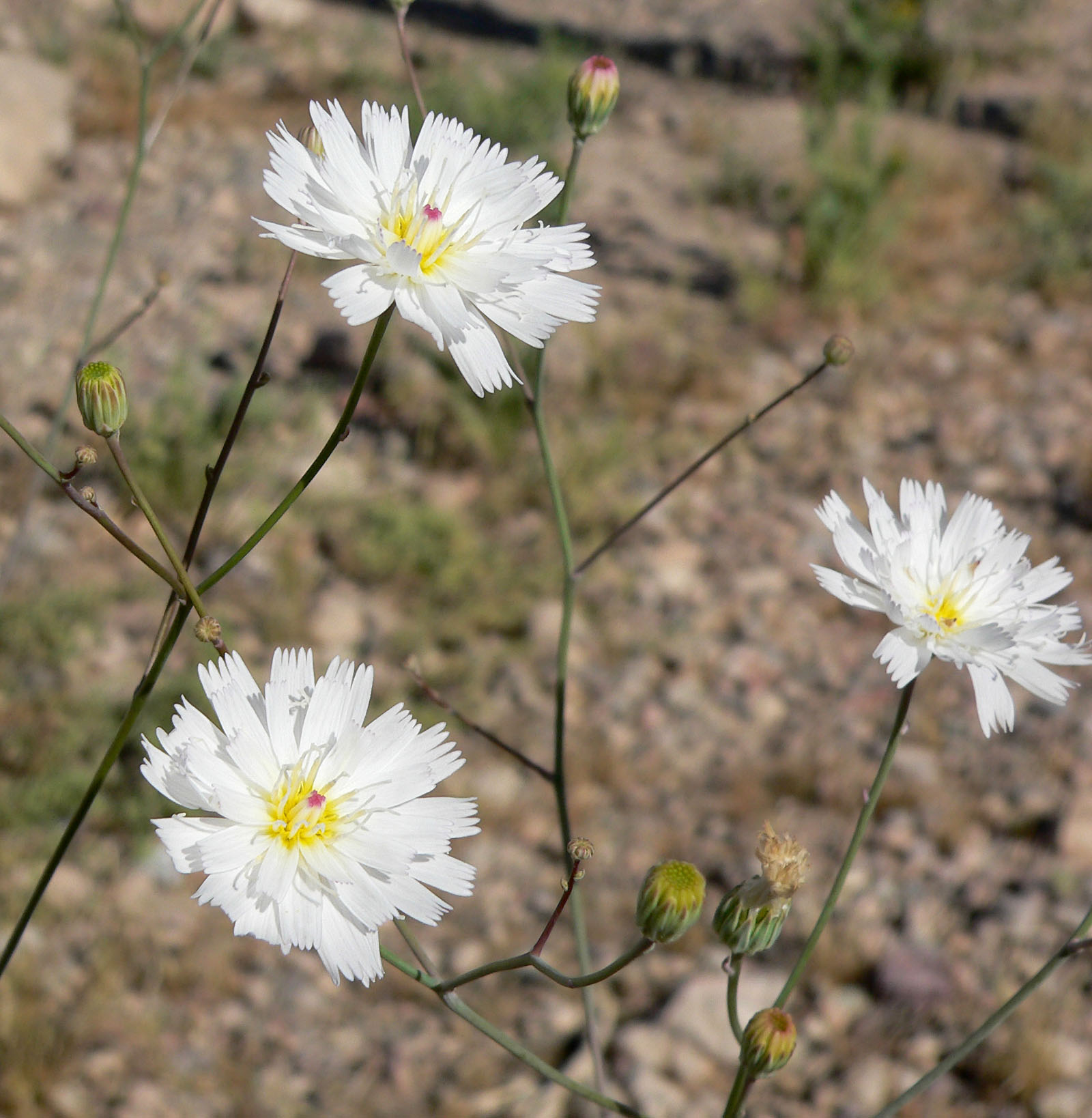 Atrichoseris platyphylla near where Las Vegas Wash empties into Lake Mead, southern Nevada